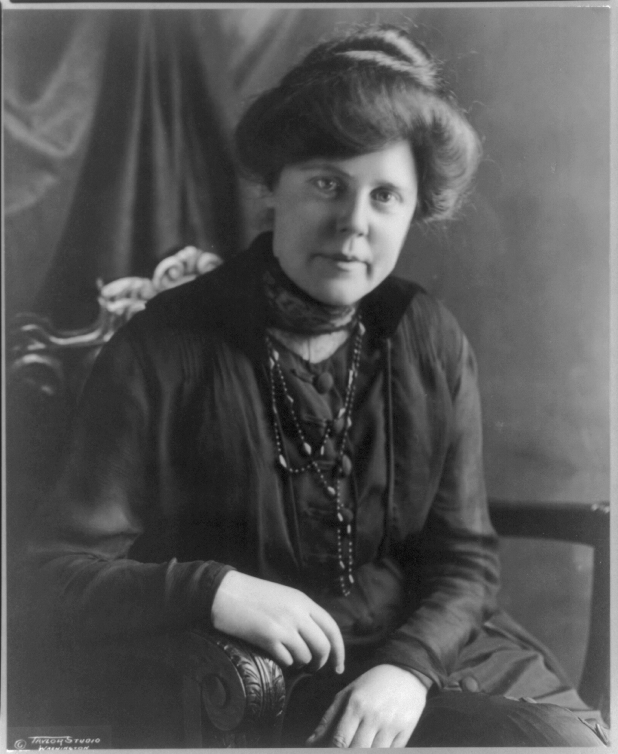 Title: Lucy Burns, half portrait, seated. Abstract/medium: 1 photograph : print.